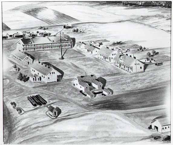 Picture depicting Fort Ridgely in 1862. Creator: Paul Waller Photograph Collection ca. 1862 Location no. MN2.7F p40 Negative no. 13718